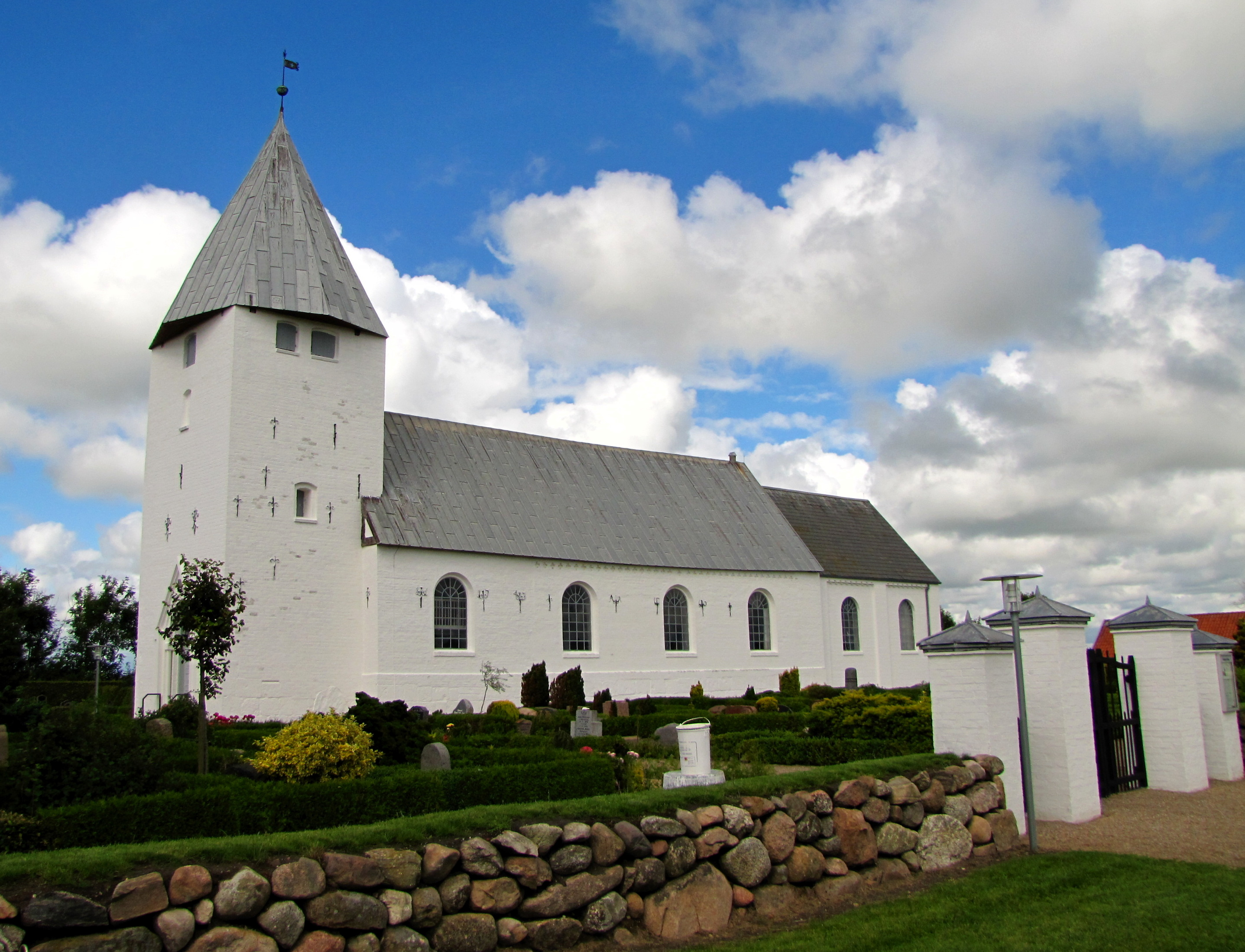 Rejsby, Denmark - church